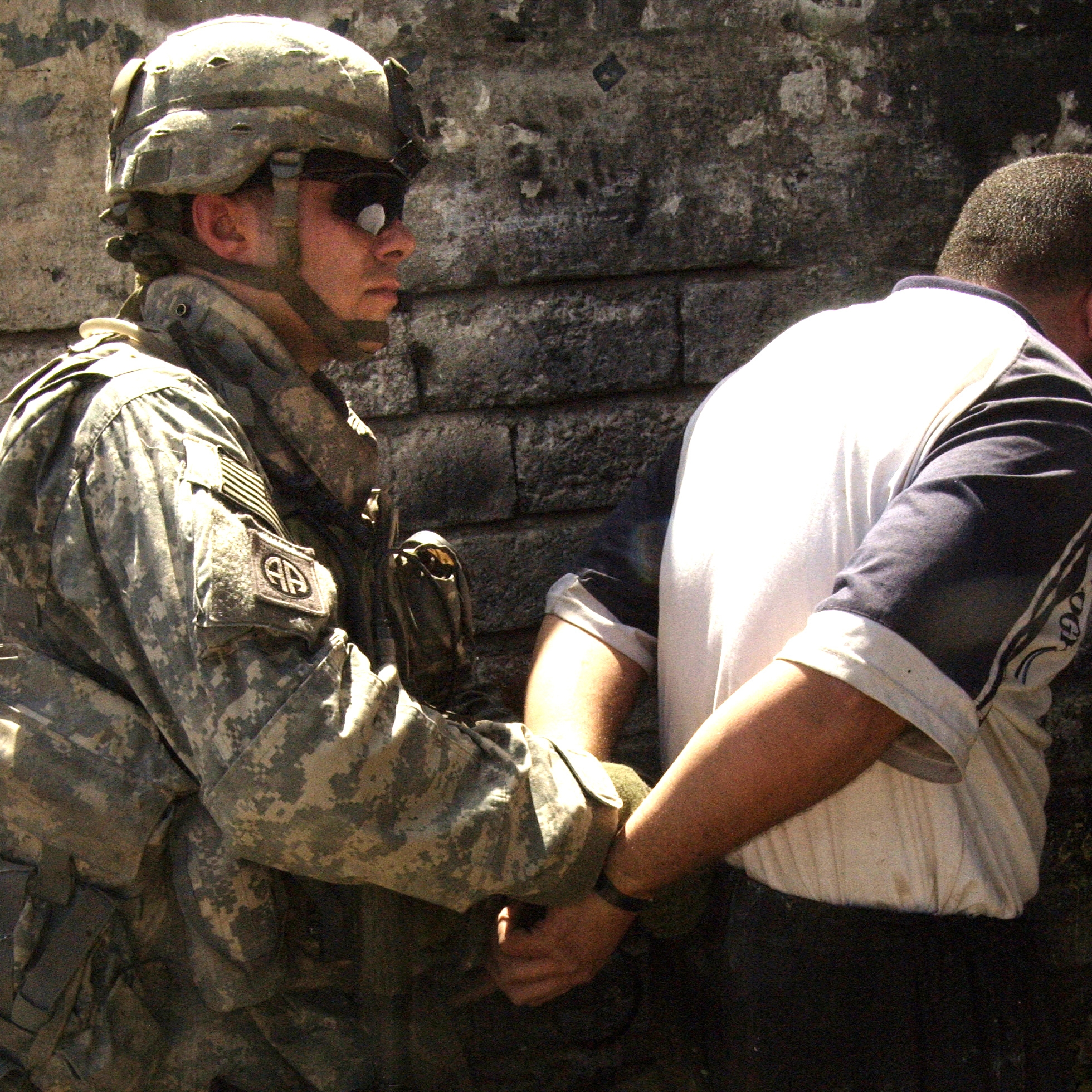 Spc. Colby Richardson detains a man after he is identified as a possible suspect.